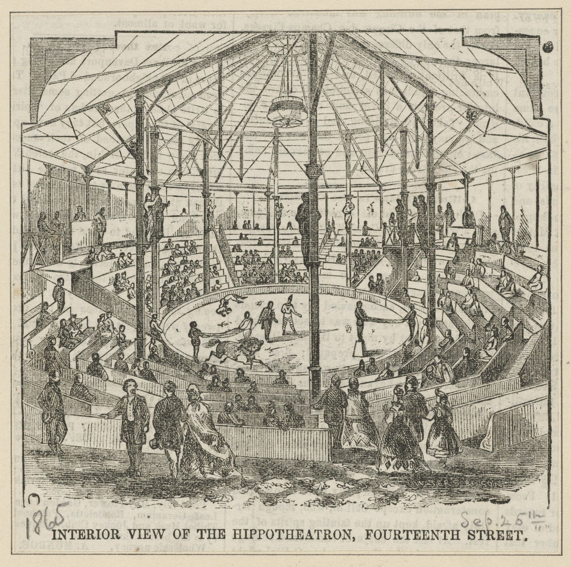 Illustration featuring an interior view of the Hippotheatron, Fourtheenth Street, New York. Dated in pencil as September 25, 1865. Circus Images, 1766-1939 (MS Thr 693). Harvard Theatre Collection, Houghton Library, Harvard University